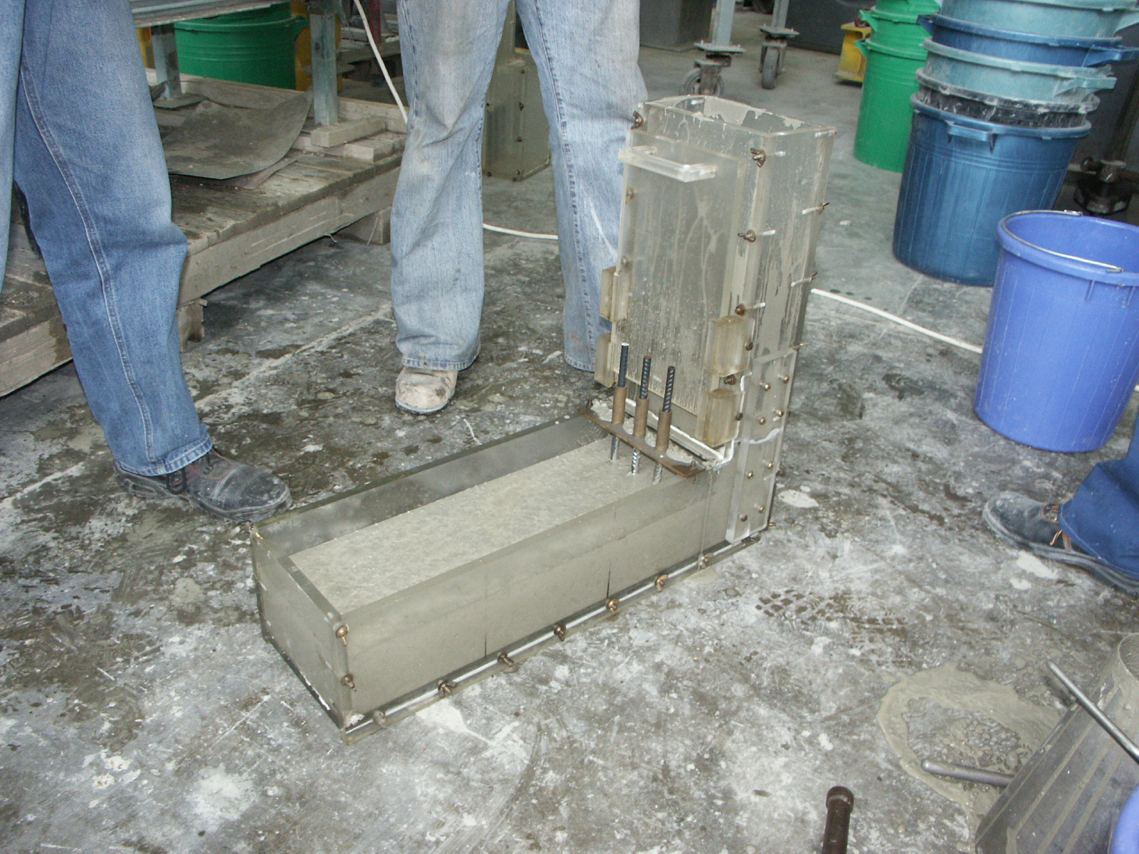 workability test for SCC concrete. the end of a L test